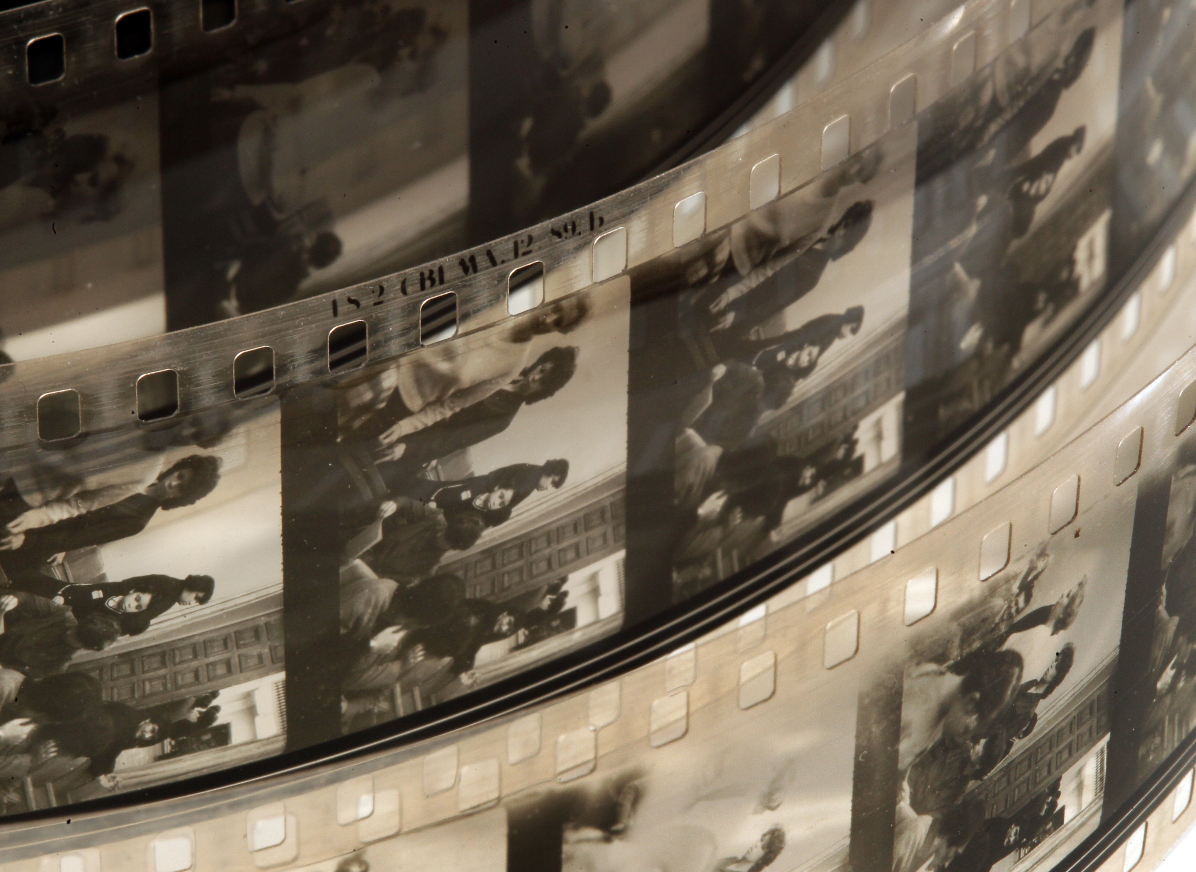 35-mm b&w positive film stock.